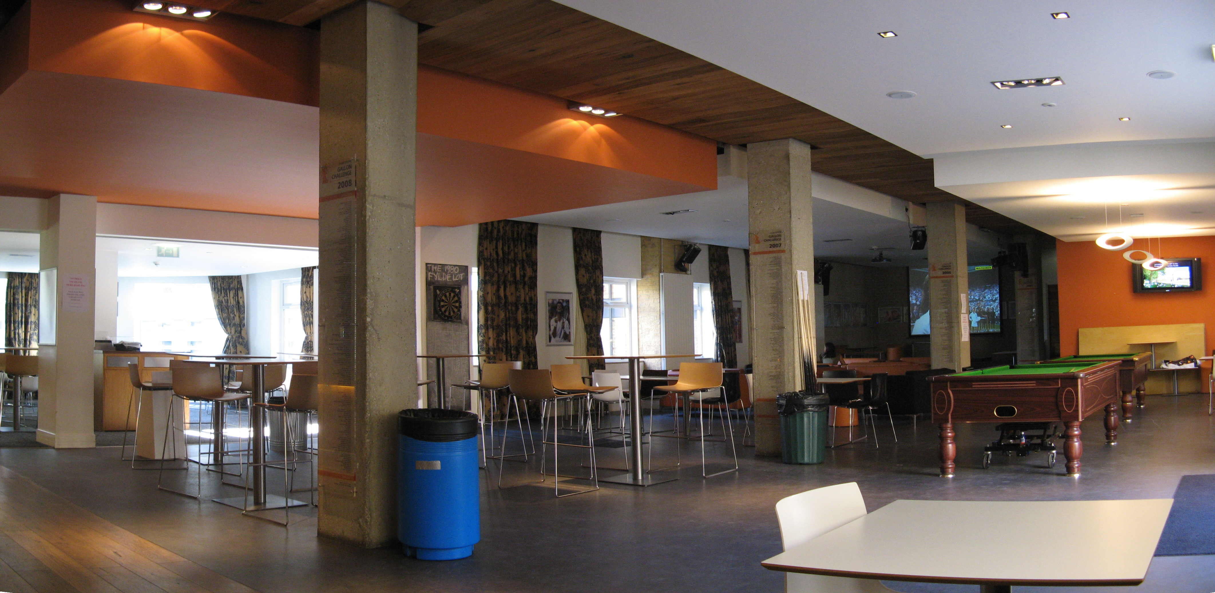 Fylde College bar, Lancaster University, in 2010 following renovation in October 2008. The official name of Fylde College bar is "The Windmill".